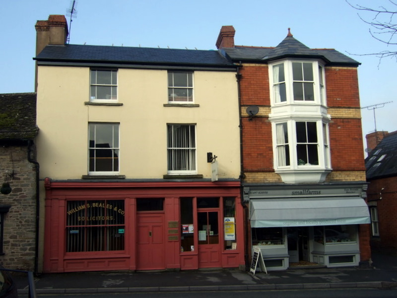 Notorious solicitor's office, Y Gelli/Hay This modest premises in Broad Street was the office of the so-called 'Hay Poisoner', Major Herbert Rowse Armstrong, the only solicitor to be hanged in Britain. In 1921 he was found guilty of using arsenic to murder, first, his wife and then of attempting, by the same means, to kill a rival solicitor in the town. In recent years the present incumbent of the practice has written a book questioning the safety of Armstrong's conviction after accessing the defence files on the case.